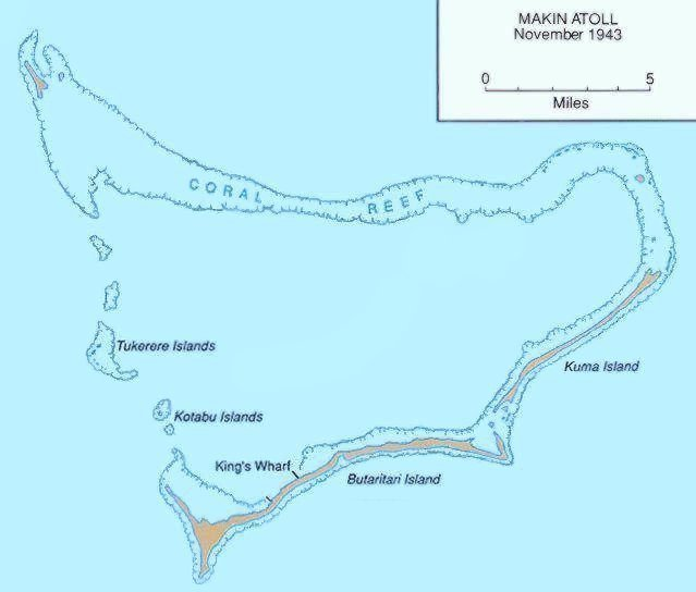 Map of Makin